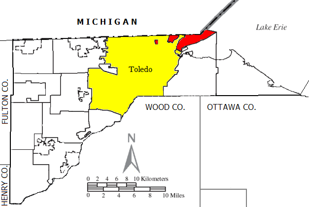 Made by the US Census and modified by myself